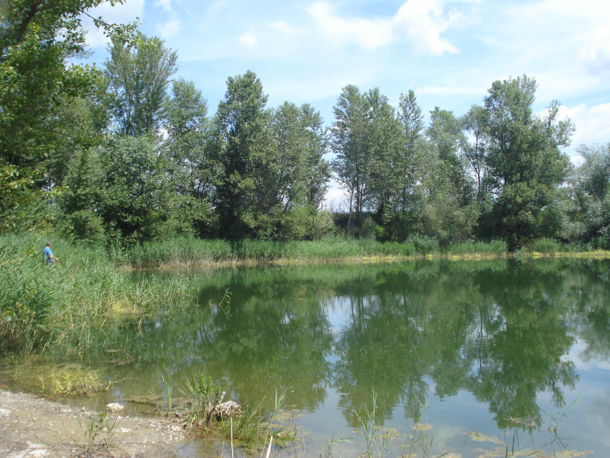 Gravel pit lake next to gravel plant for sand and gravel extraction in Ivanovec, Medjimurje County, Croatia - north side